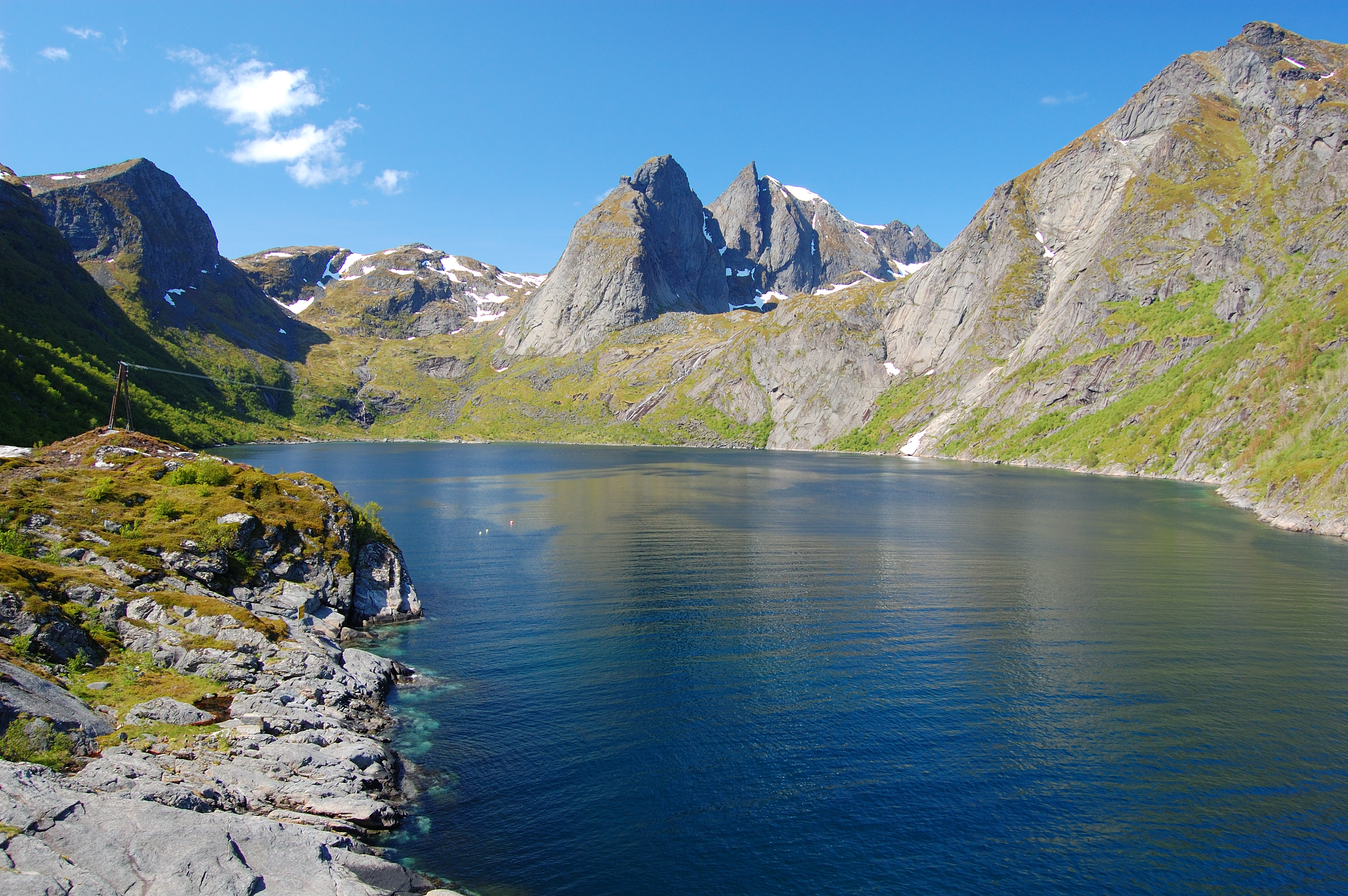 Djupfjord in Lofoten, Norway.